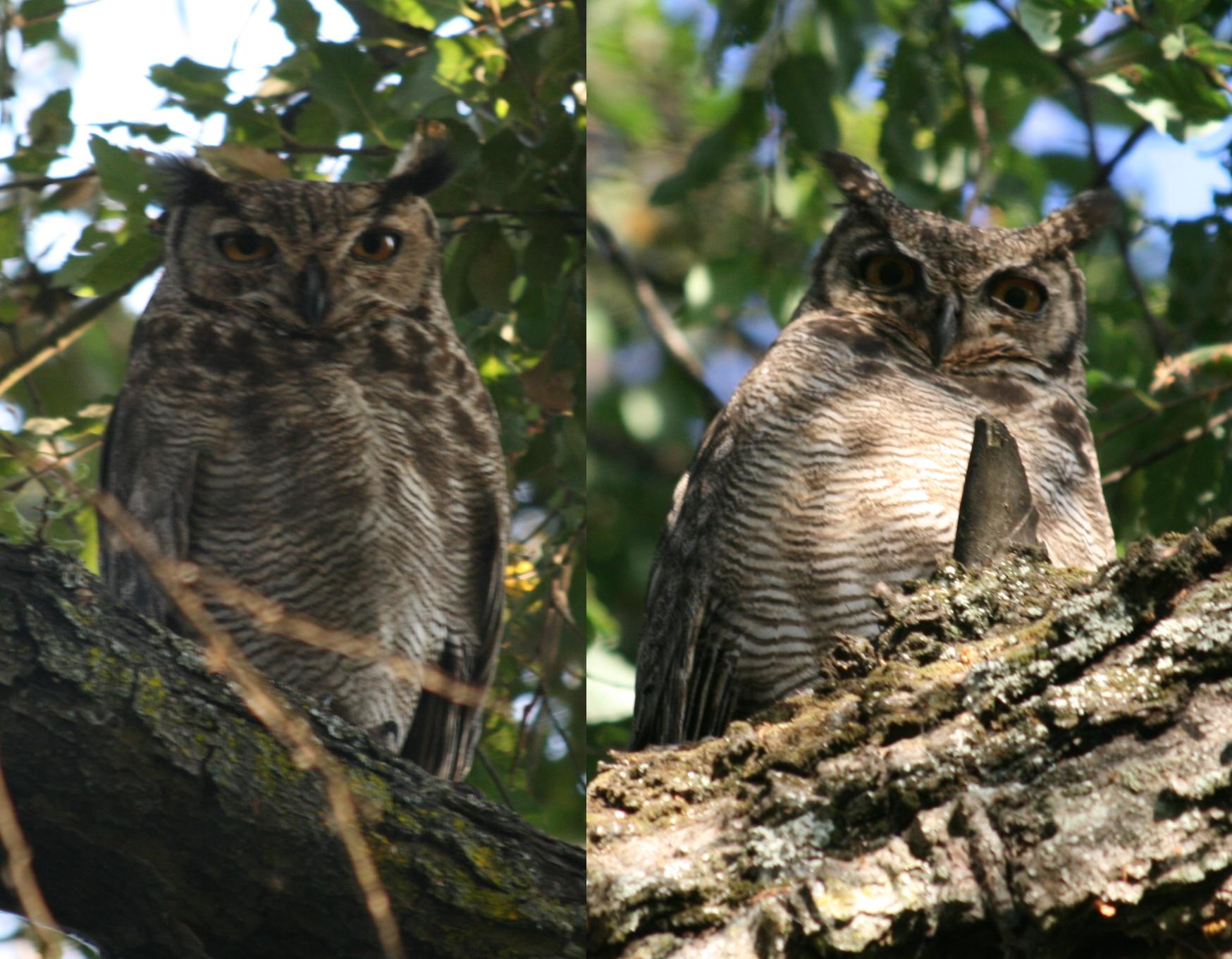 Ejemplares macho y hembra de tucúquere (Bubo magellanicus). Male (left) and female of Bubo magellanicus.